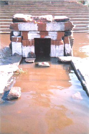 Sangama - The temple at the place where the two rivers meet... A small temple and water tank at Koodli, India